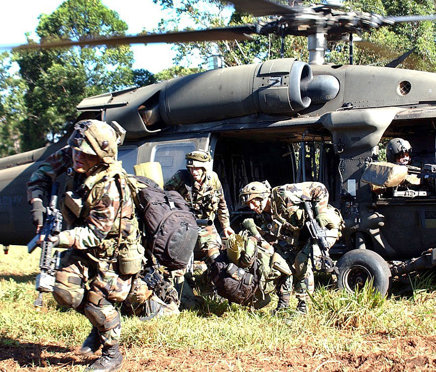 Soldiers of the 25th Infantry Division while exiting a UH-60_Black_Hawk at a training at Shoefield Barracks, Hawai, 22nd September 2003